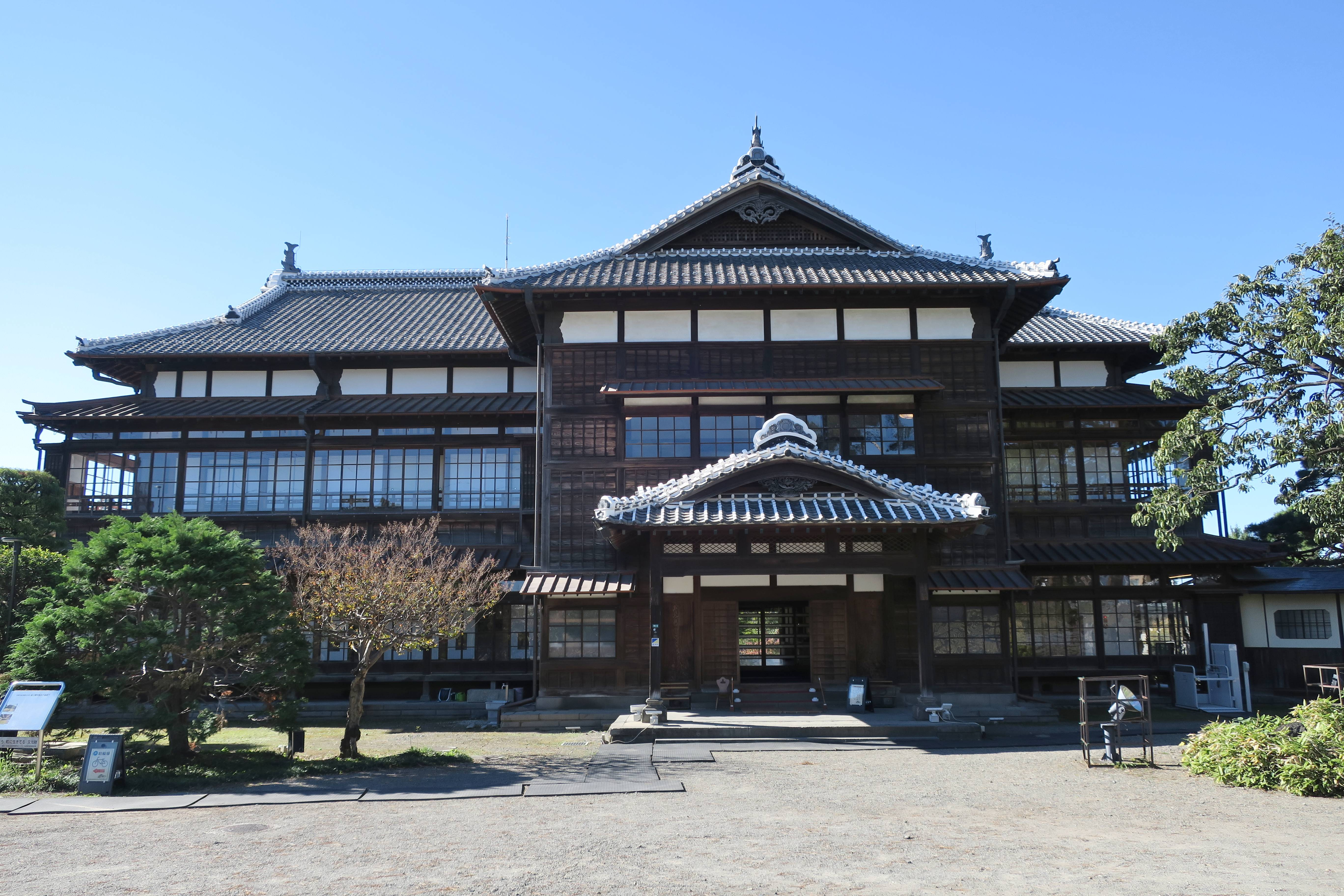 Rinkōkaku (Maebashi, Gunma).